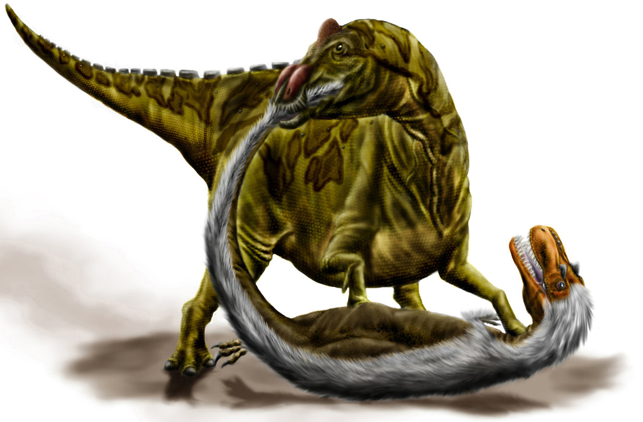 The hadrosaurine Edmontosaurus regalis uses its weight to take down an uncareful Albertosaurus sarcophagus.